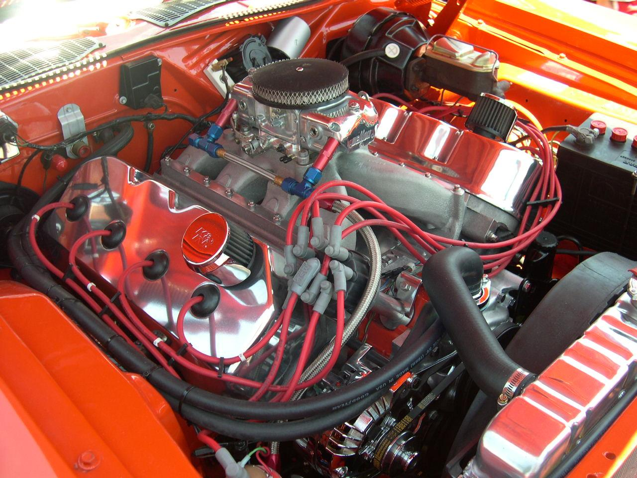 1971 Plymouth Hemi 'Cuda engine Source: Photographed at the Bay State Antique Automobile Club's July 10, 2005 show at the Endicott Estate in Dedham, MA by User:Sfoskett